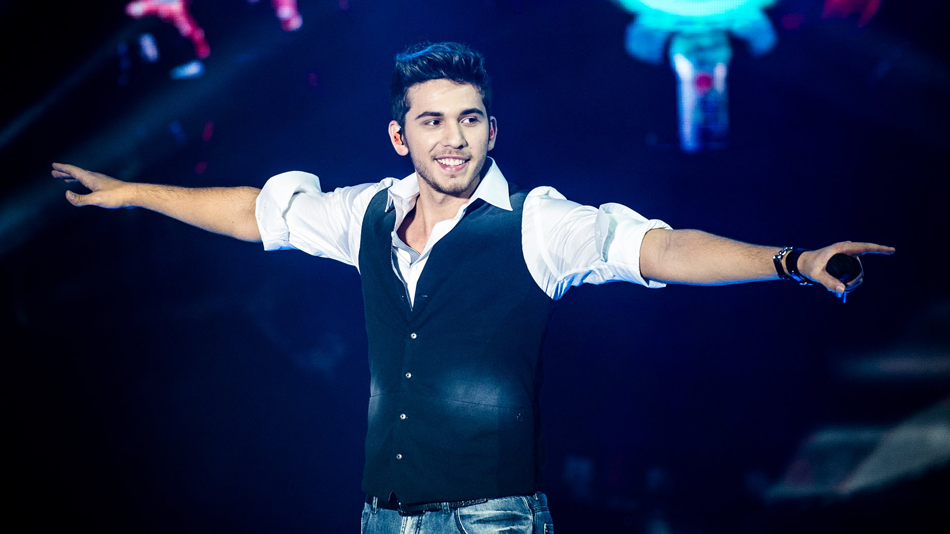 Gustavo Mioto 2015